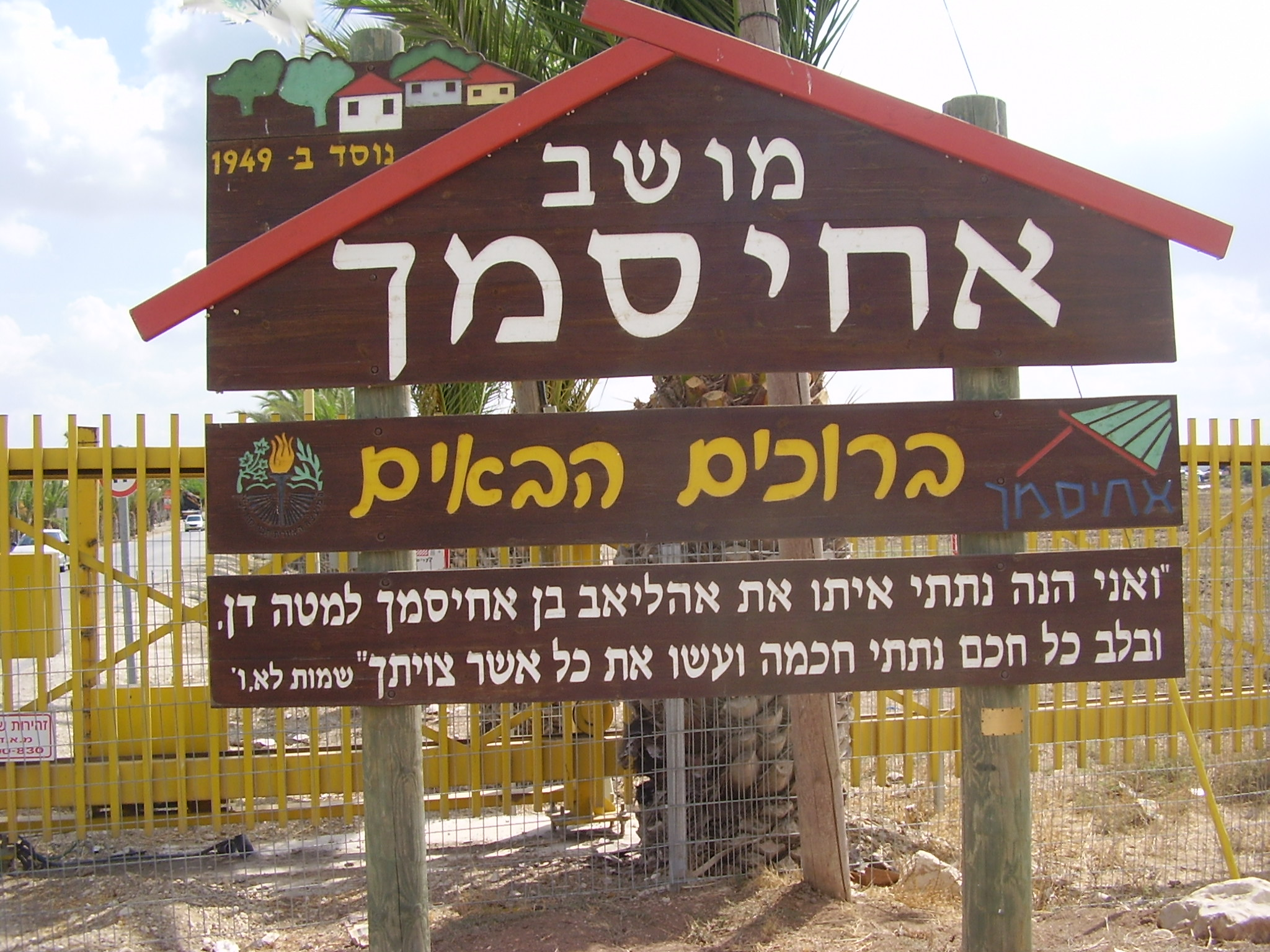 entrance to akhisamakh